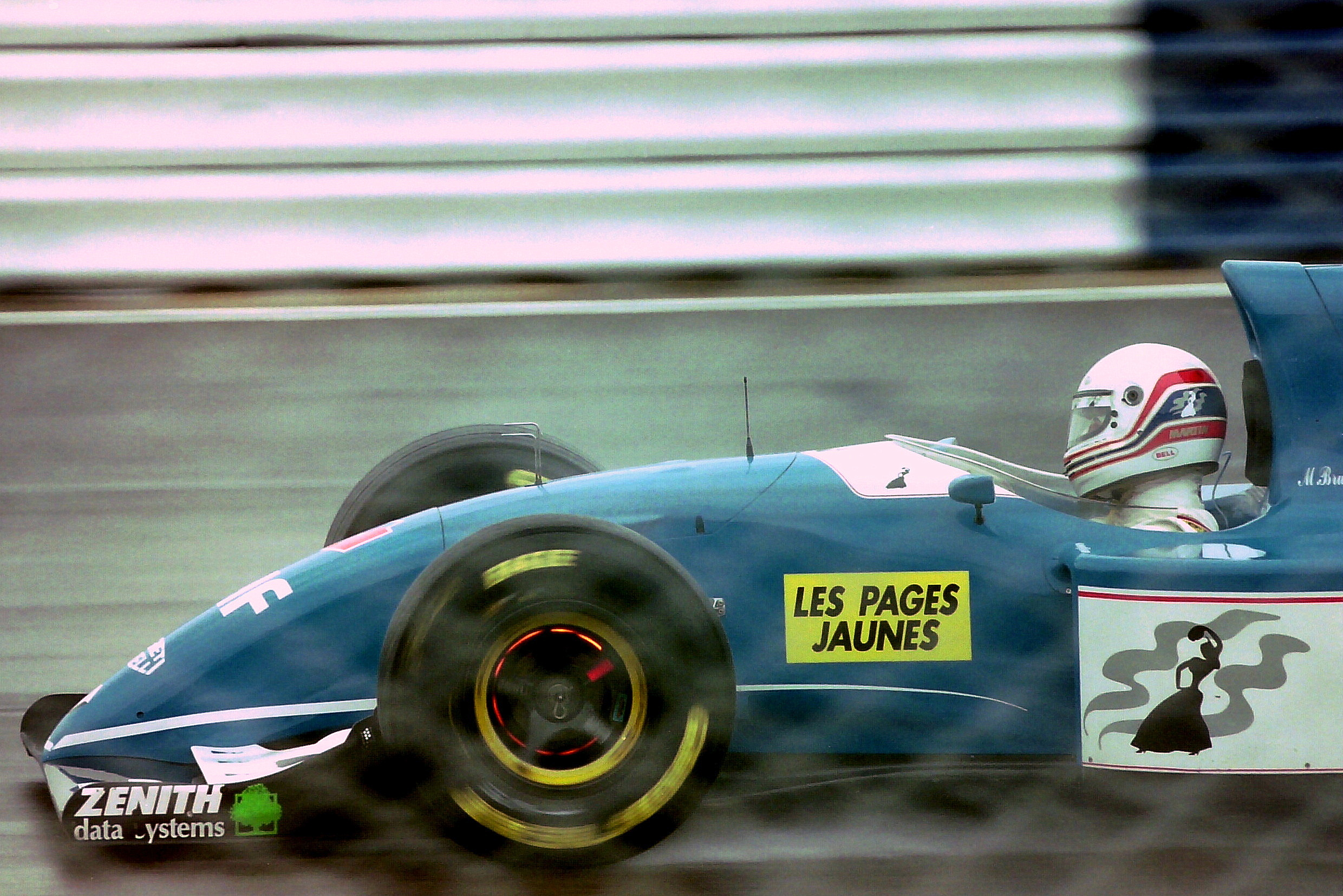 Martin Brundle - Ligier JS39 heads for Copse during practice for the 1993 British Grand Prix